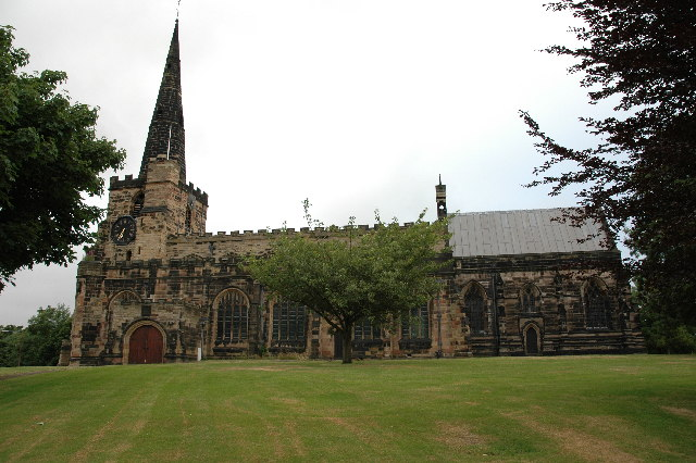 Winwick Church This is Winwick Church dedicated to St Oswald I believe (thanks to Phil of ).